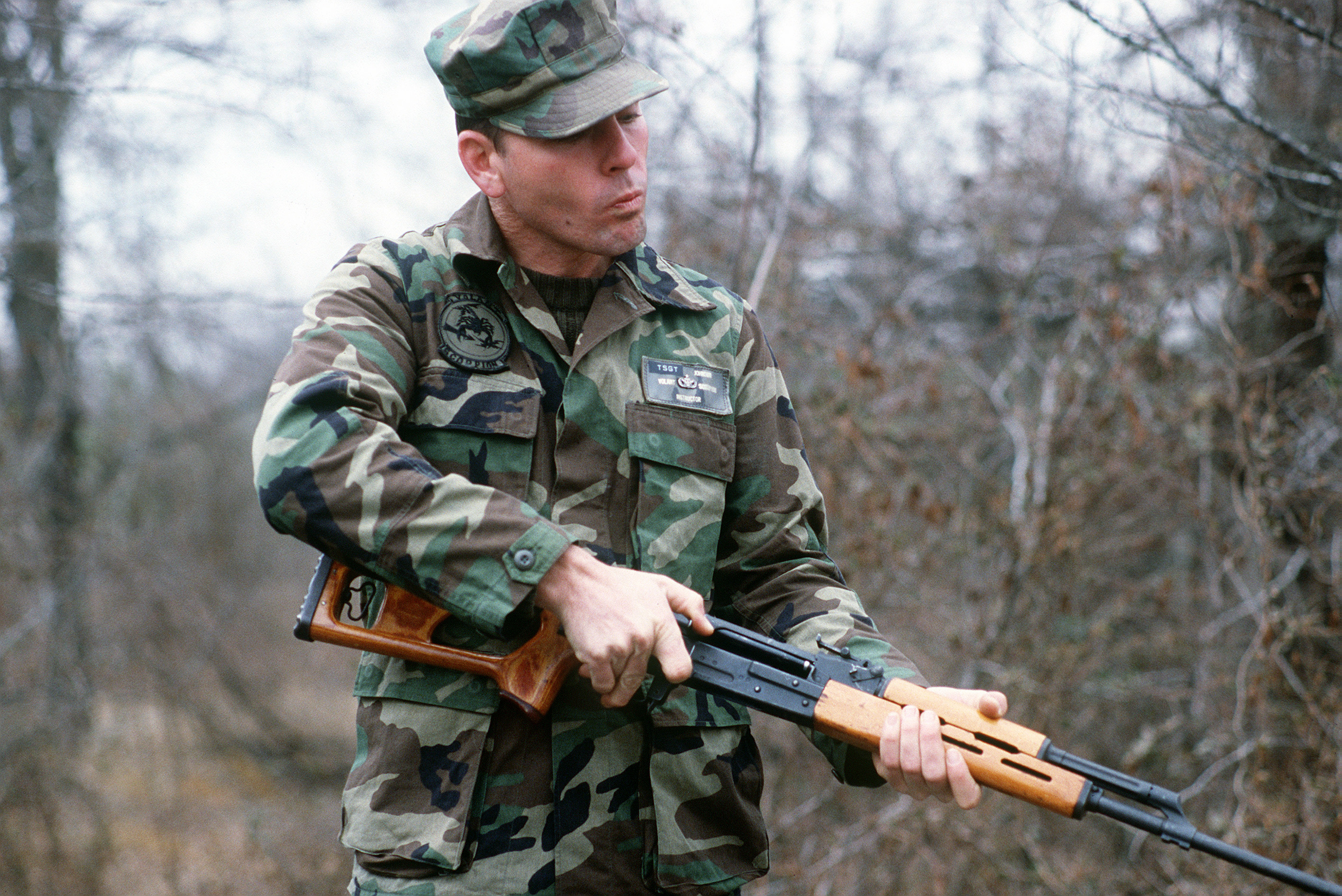 Technical Sergeant (TSGT) Dickie Johnson demonstrates the use of a Soviet-made sniper rifle (Dragunov) Romanian-made designated marksman rifle (PSL) during Exercise Volant Scorpion, Little Rock Air Force Base, Arkansas, USA.